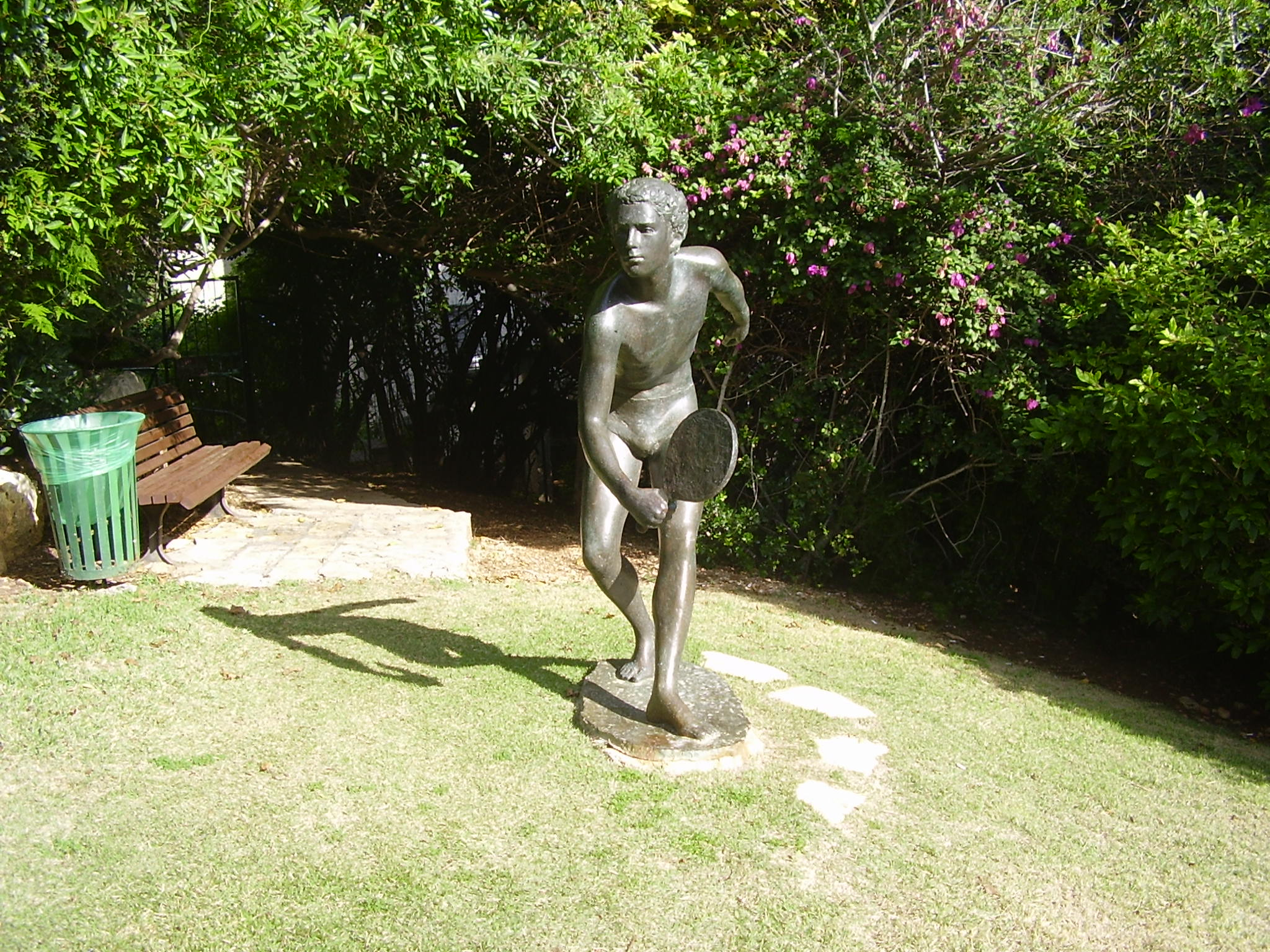 tennis player by ursula malbin in haifa